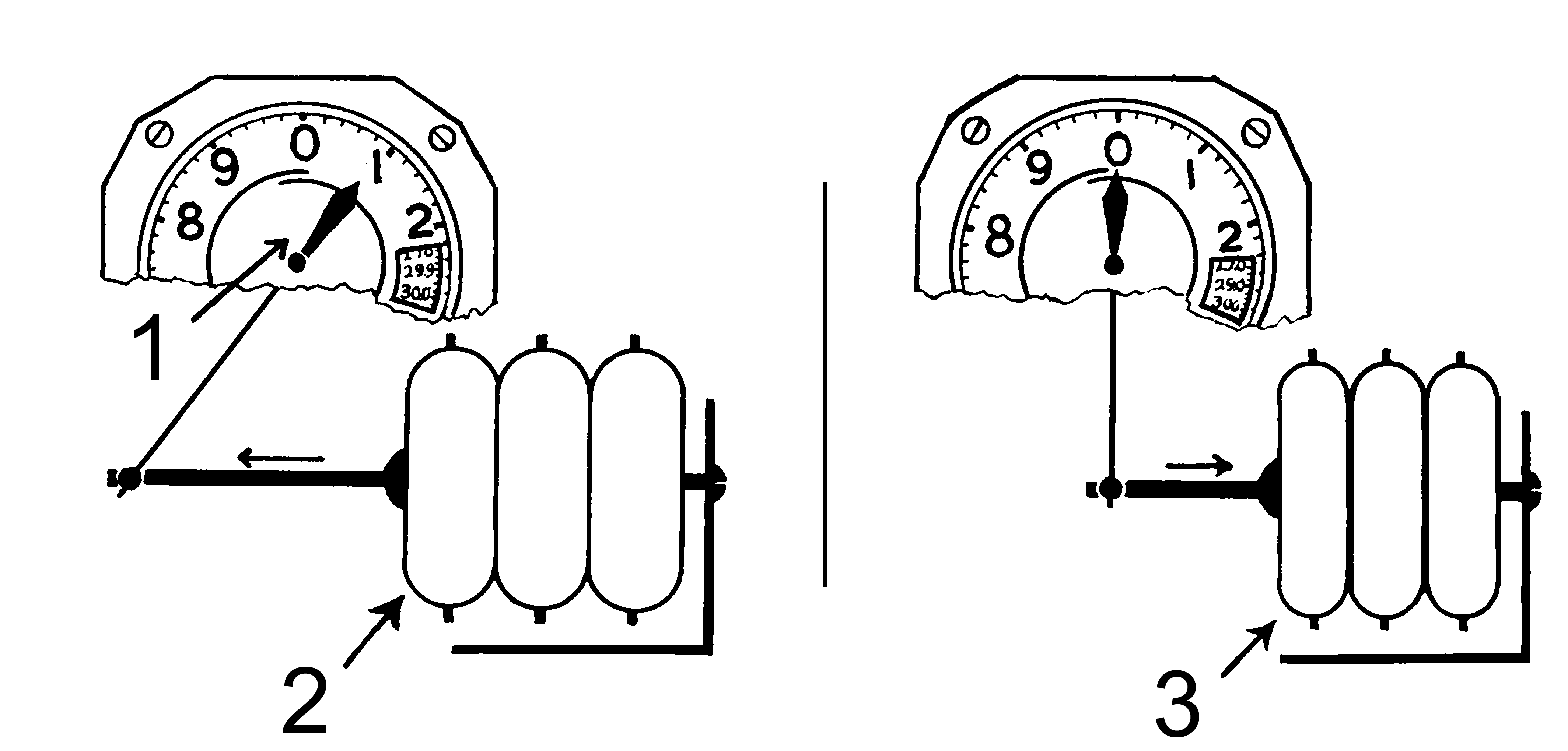 Line art diagram of an altimeter in action. Pointer Aneroid cell expanded Aneroid cell contracted